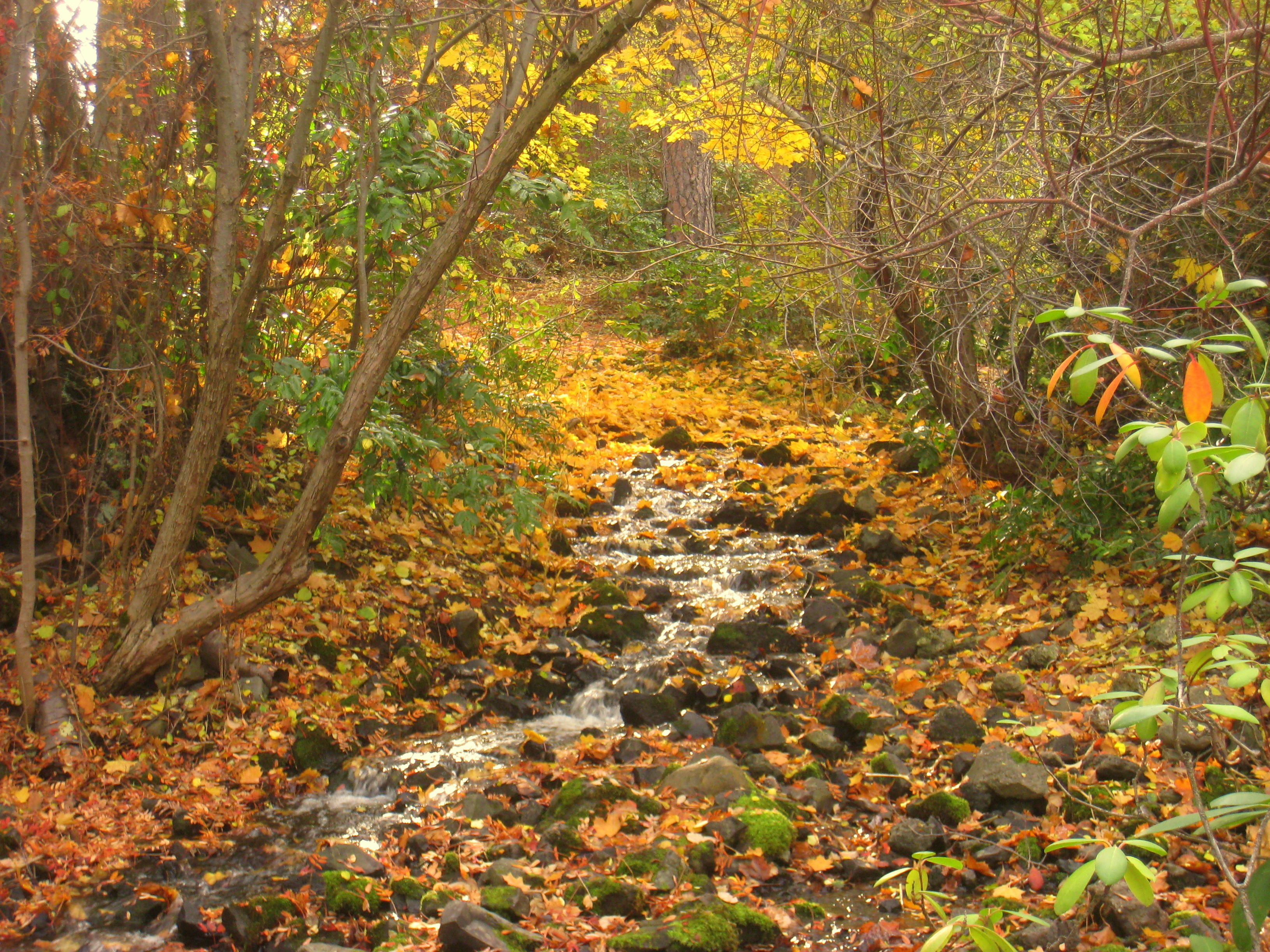 John A. Finch Arboretum, Spokane, Washington, USA.